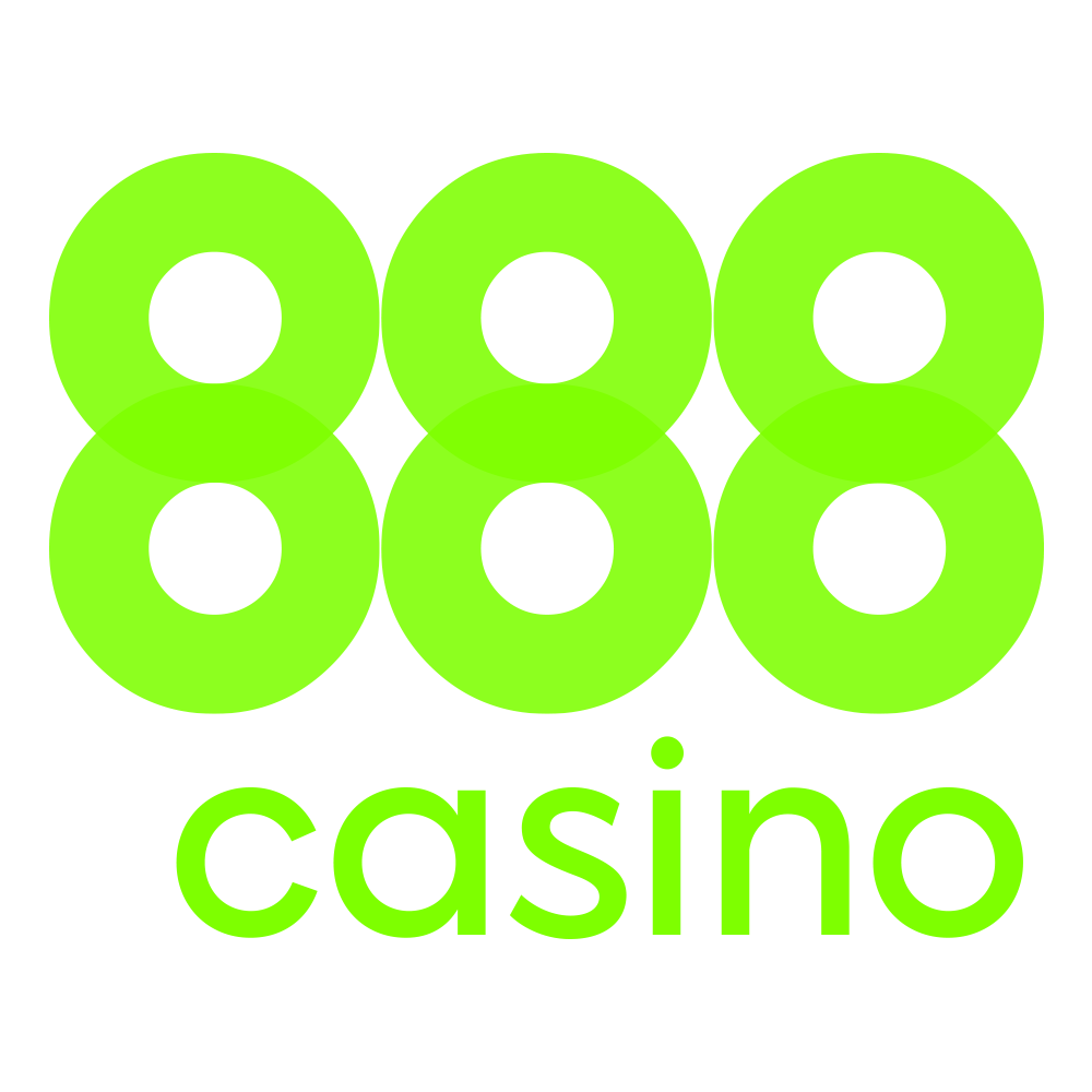 Brand logo of 888casino